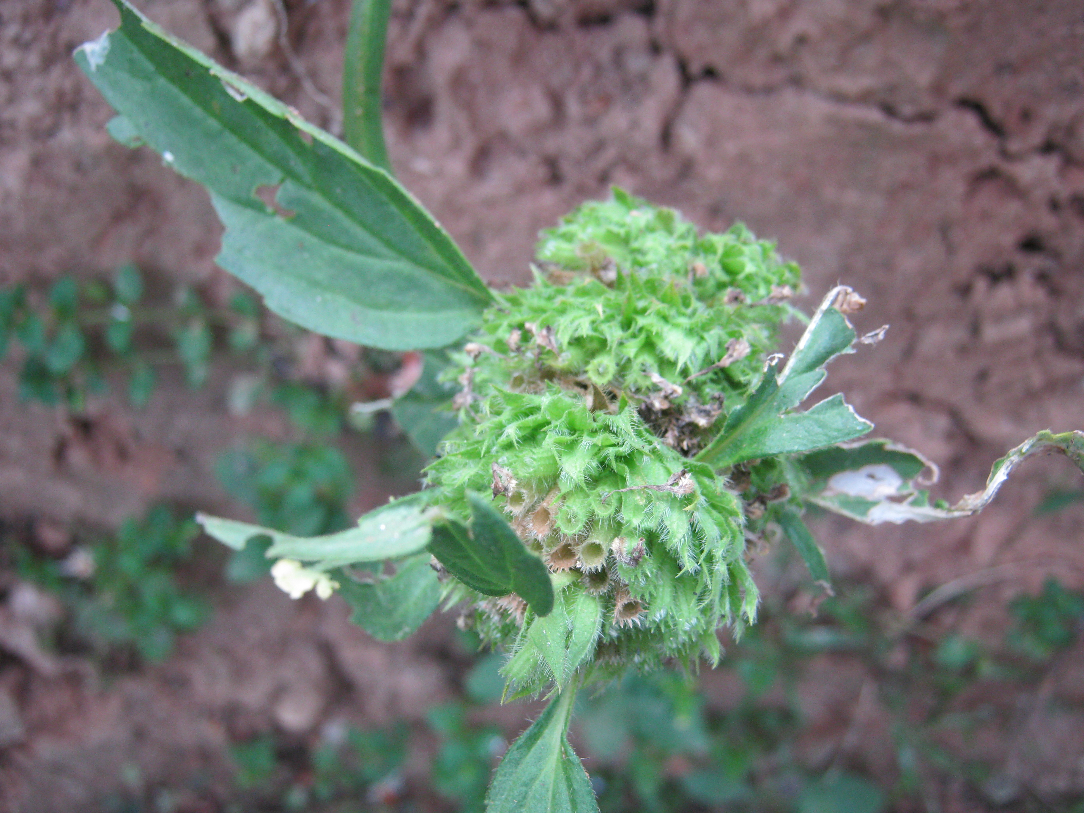 A medicinal plant found in Nepal.